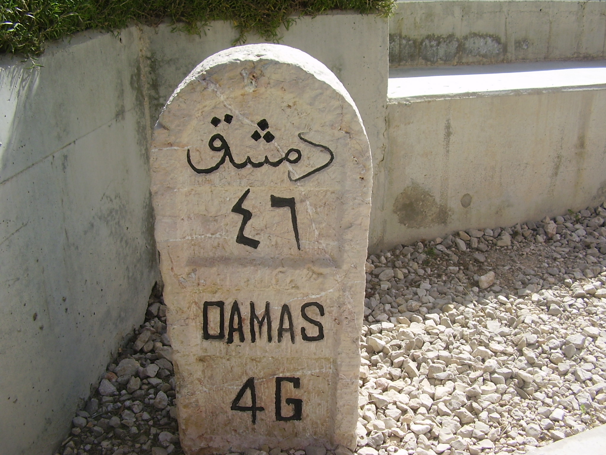 Milestone, 46 km from Damascus where the i.d.f armored corps reached in Yom Kippur War